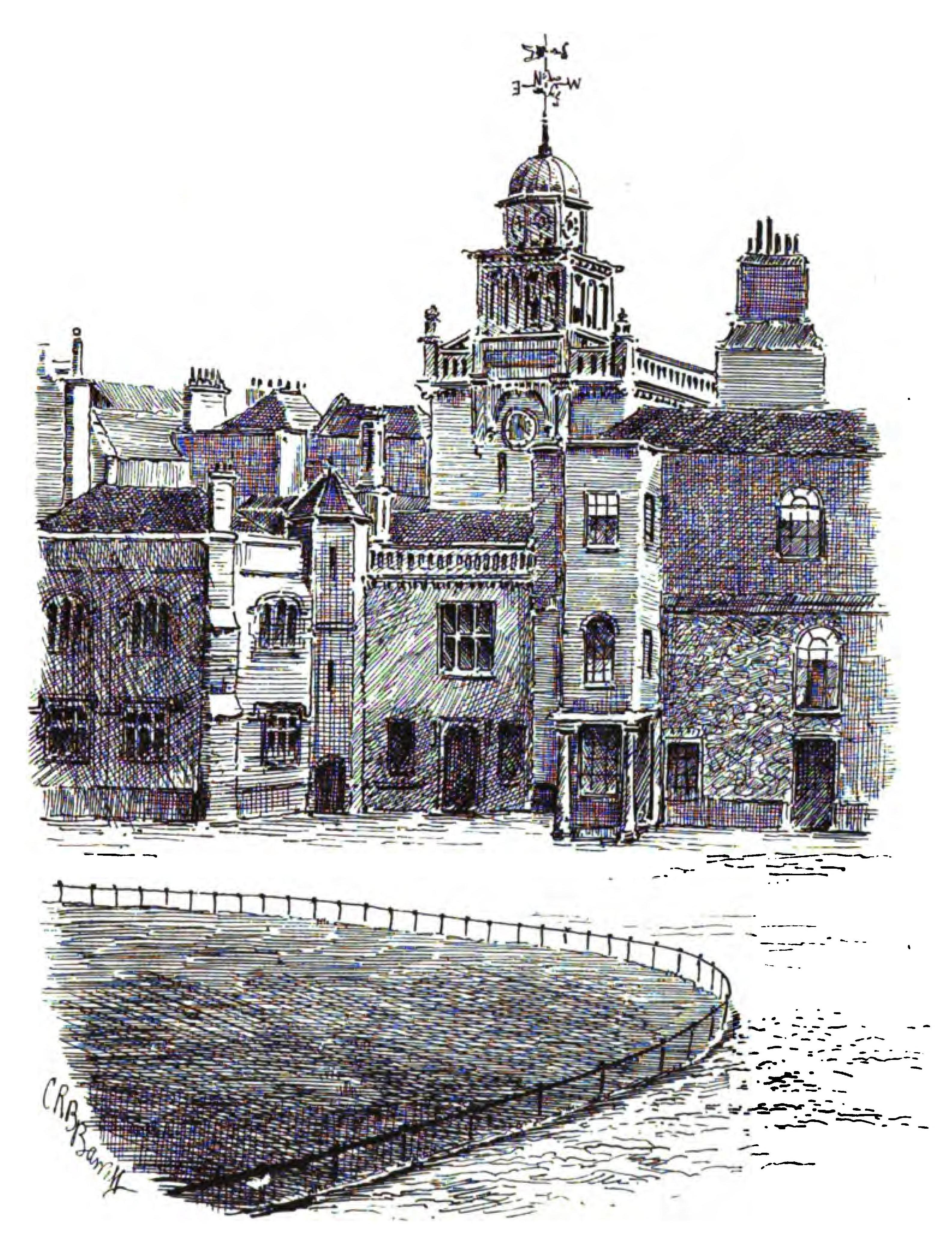 The Chapel of the London Charterhouse. Pen and ink drawing by Charles Raymond Booth Barrett. "Externally the Chapel cannot be said to appear to advantage, owing to the various buildings that crowd up to and around it. Two of its wall, viz., those which form the eastern and southern sides, are presumably belonging to the Chapel of the Monastery. The North Aisle dates from the early part of the 17th century, being the work of the first Governors of Charterhouse. The North Chapel was added in 1824."